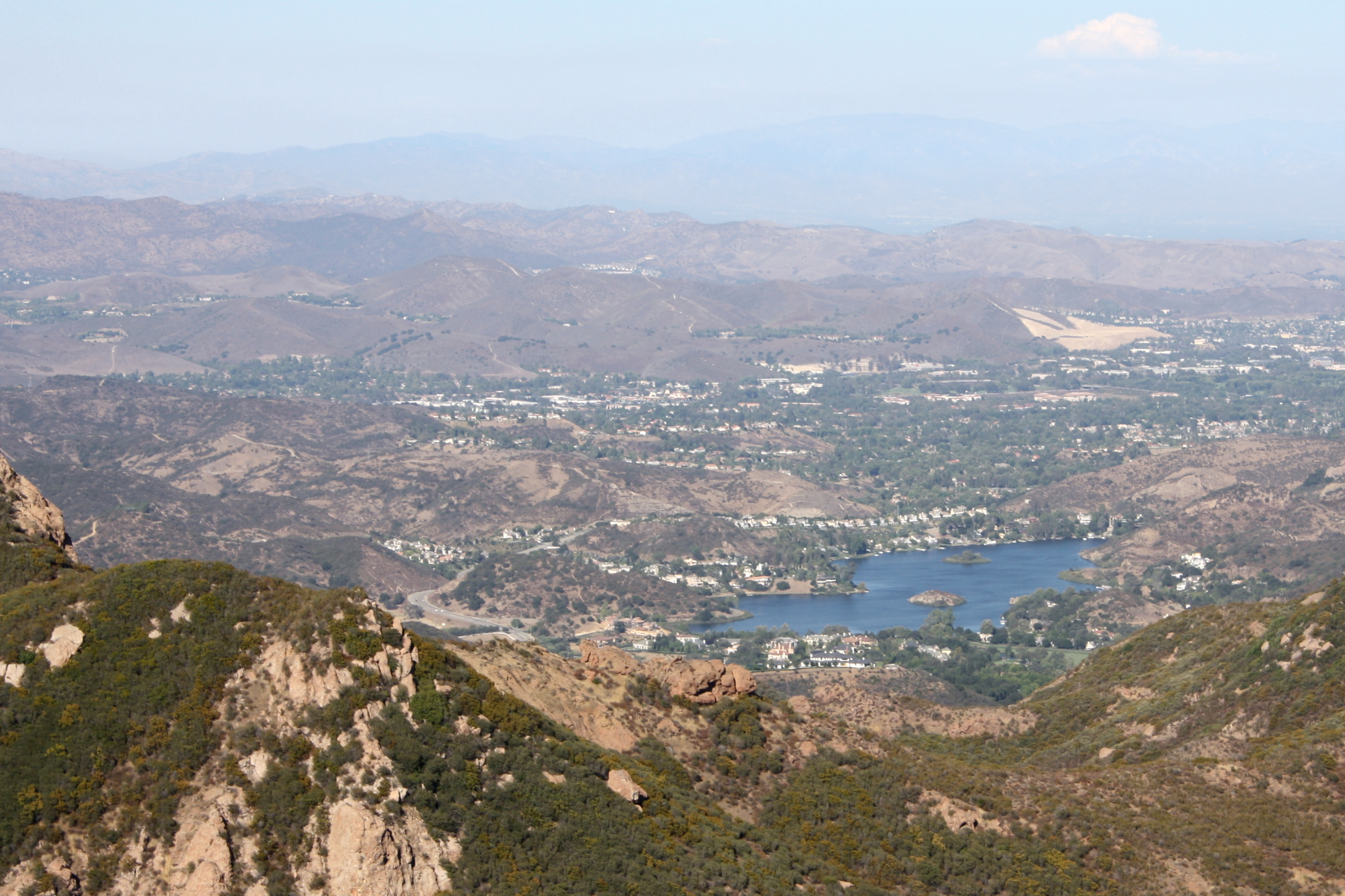 View from Sandstone Peak — in the Santa Monica Mountains, within Circle X Ranch Park. Showing the Santa Monicas, Lake Sherwood, and the Conejo Valley with Westlake Village, and the Simi Hills behind.